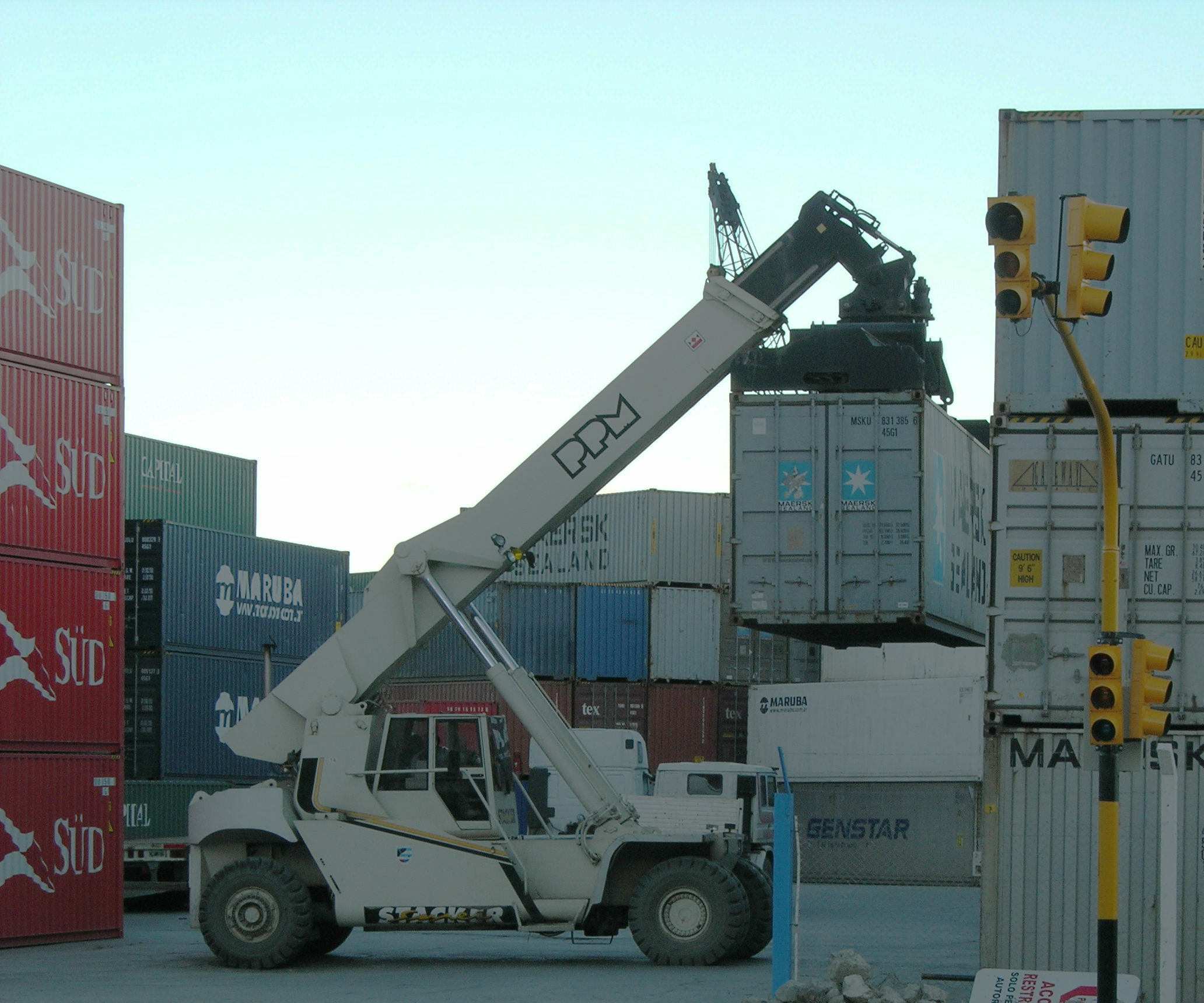 Description = Dans la zone sous douane a Ushuaia ( Argentine ) Source =Photo taken by Remi Jouan Date =Avril 2006 Author =Remi Jouan